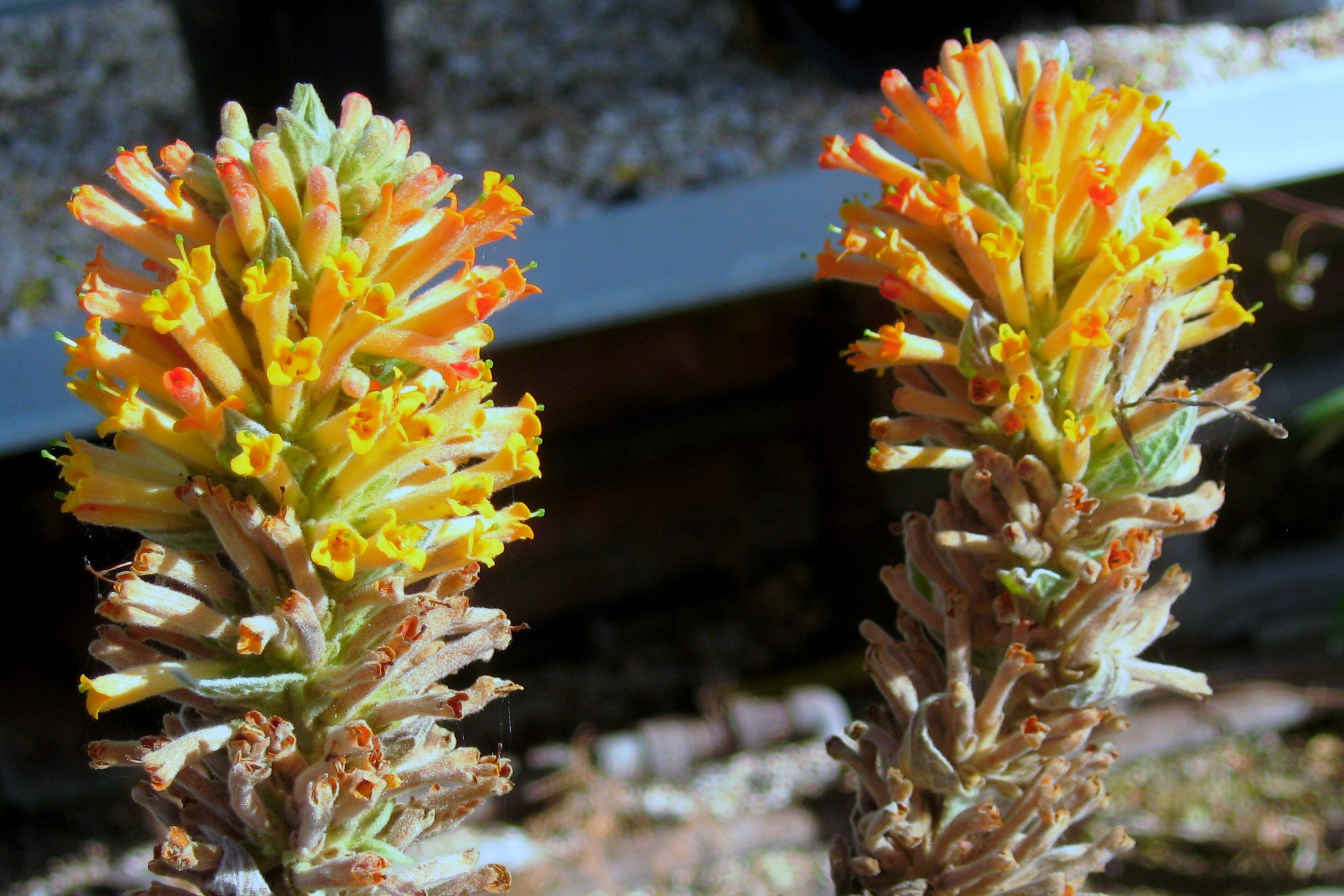 Photo of panicle of Buddleja tubiflora taken at Longstock Park nursery, UK